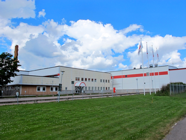 The snack manufacturer OLW's factory in Filipstad, Sweden